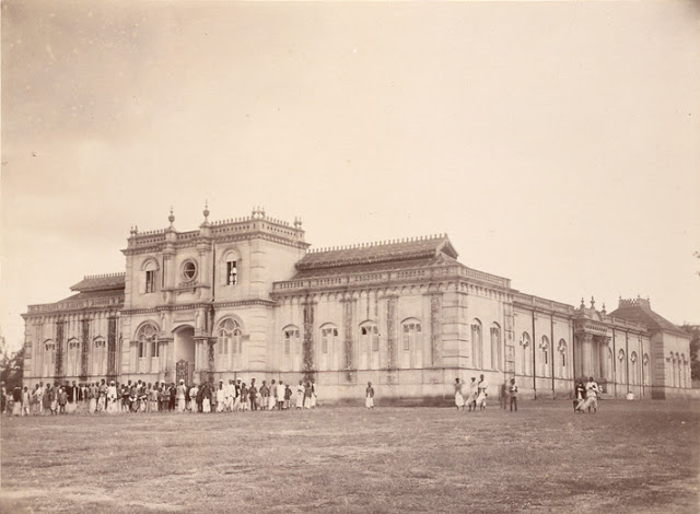 Marimallappa's High School, Mysore (1890s) by an unknown photographer, from the Curzon Collection's 'Souvenir of Mysore Album'